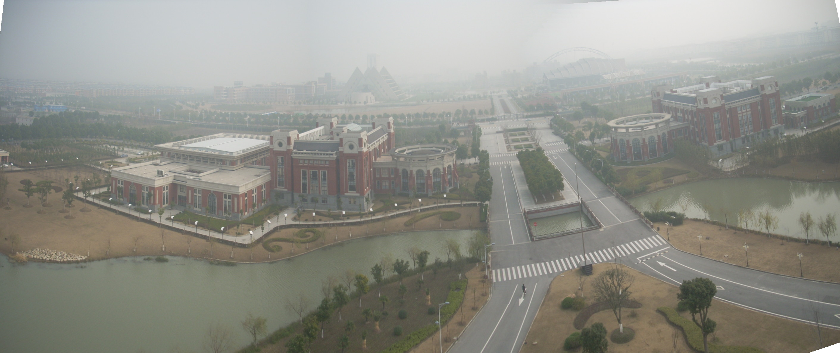 East China University of Political Science and Law, Shanghai. Panorama of ECUPL Entrance from top of clocktower